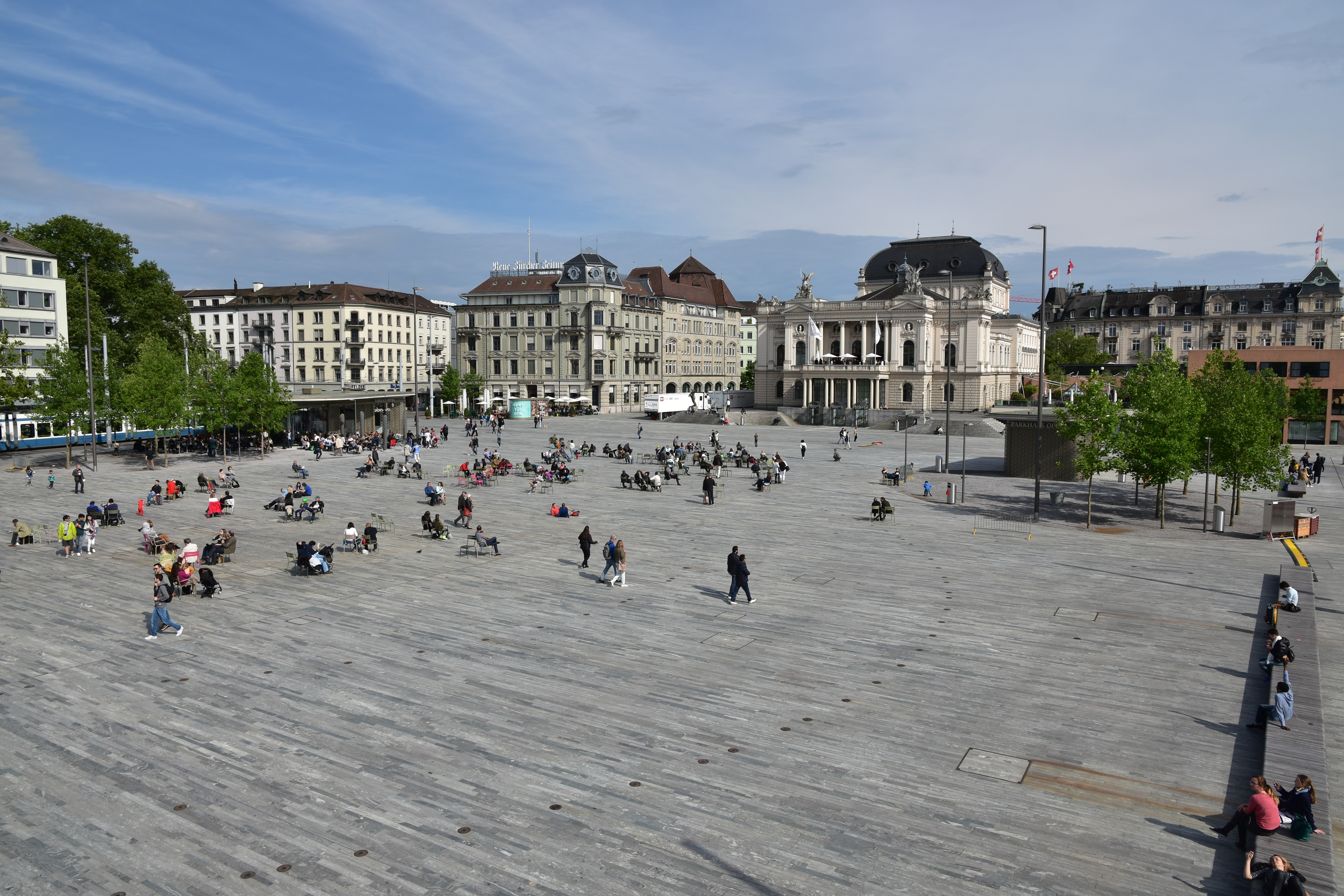 Sechseläutenplatz as seen from the temporary pedestrian passage towards Bellevueplatz Utoquai in Zürich (Switzerland)